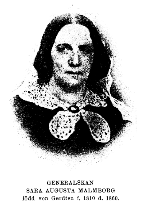 Portrait of Sara Augusta Malmborg (1810–1860), Swedish musician